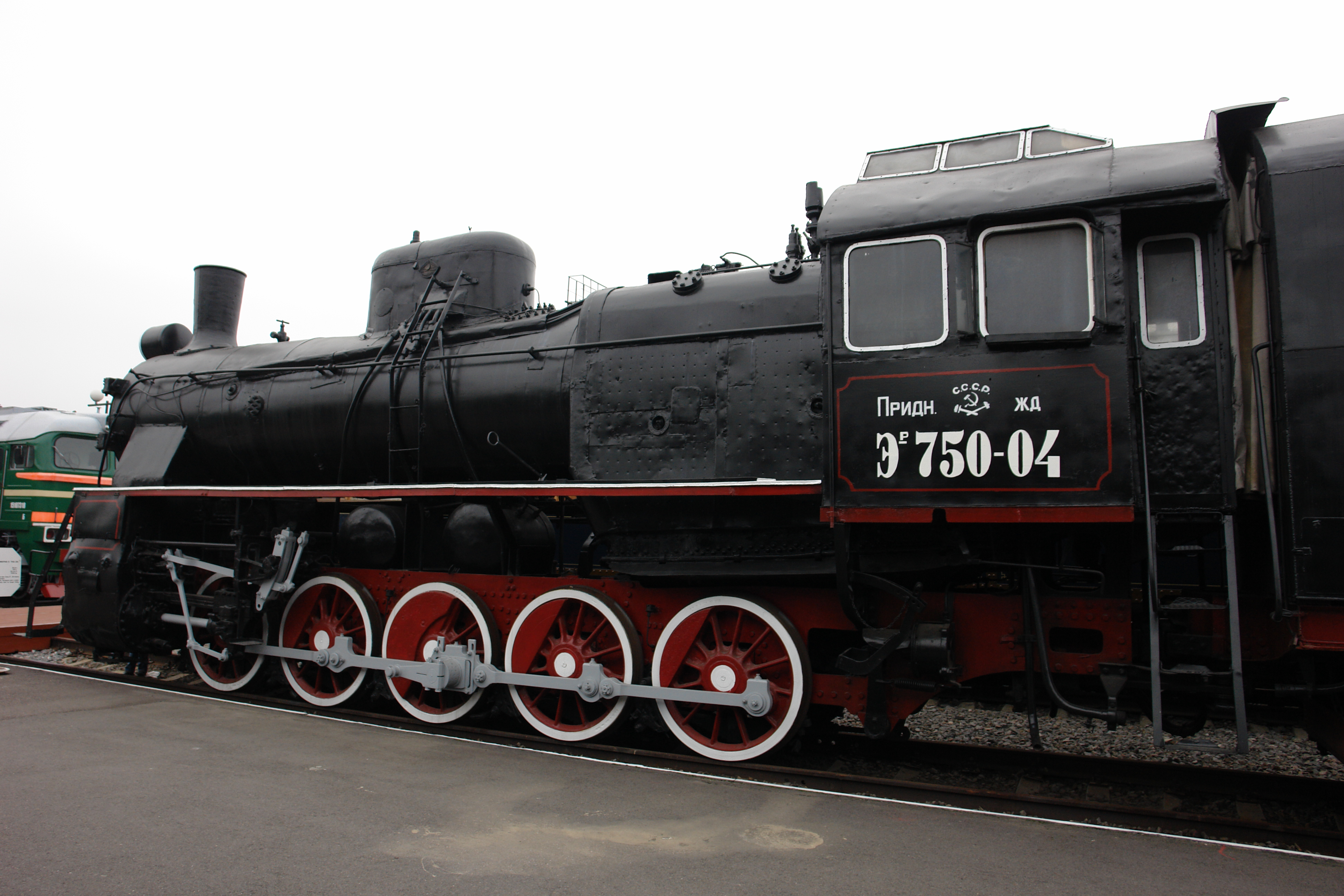 Freight steam locomotive Er 750-04 Weight in serviceable condition:excluding tender85,8 t.including tender150 t.design speed65 km/hMaximum power on wheel rim1500 hp The class Er was a development of the class Em. (R means reconstructed). It has a larger firebox. Built by Kolomna Works in 1943. Equipped with a boiler from the Su passenger class which was no longer being produced because of the war.